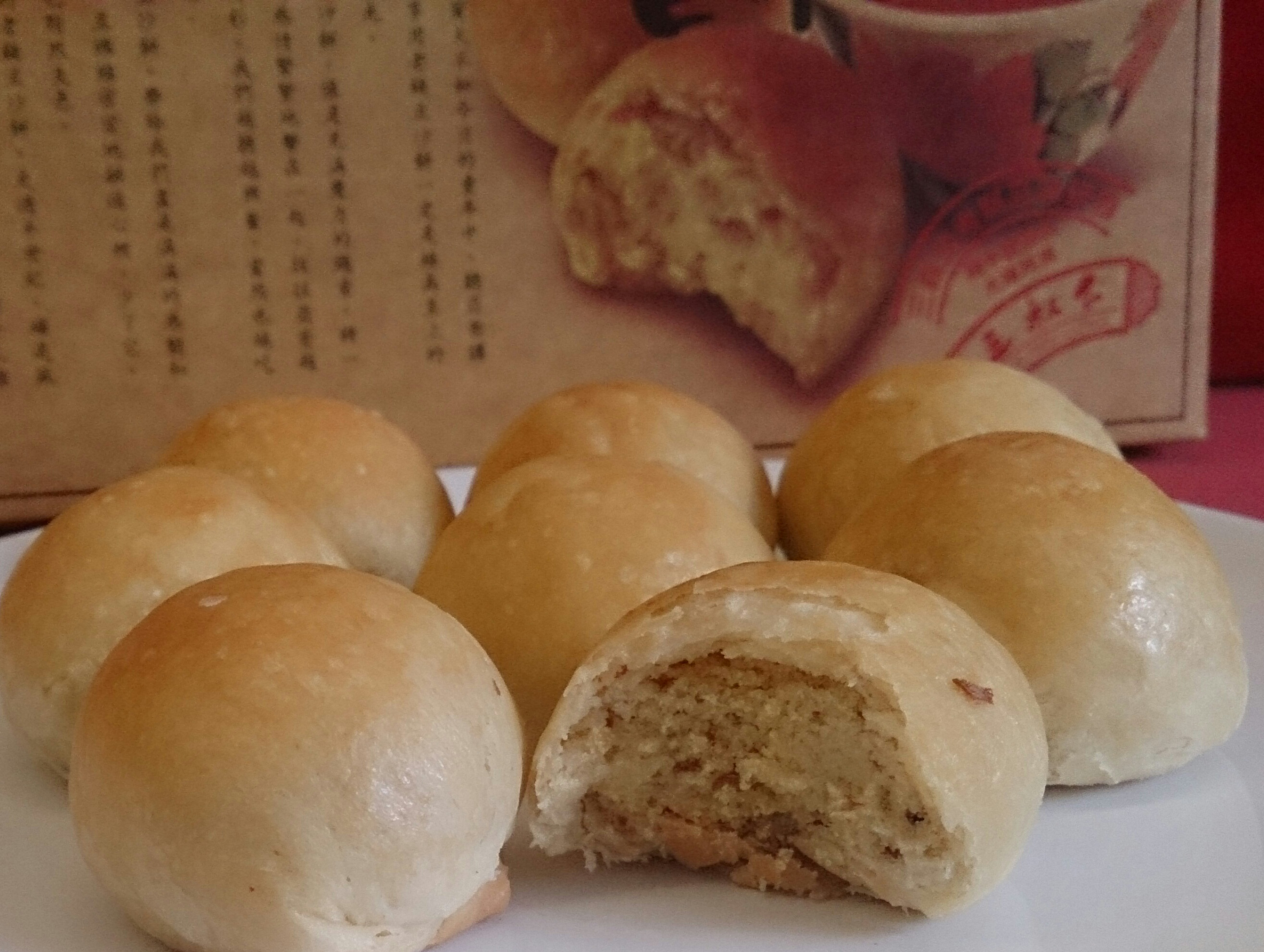 local Chinese pastry from Penang, West Malaysia. in malay: biskut tambun